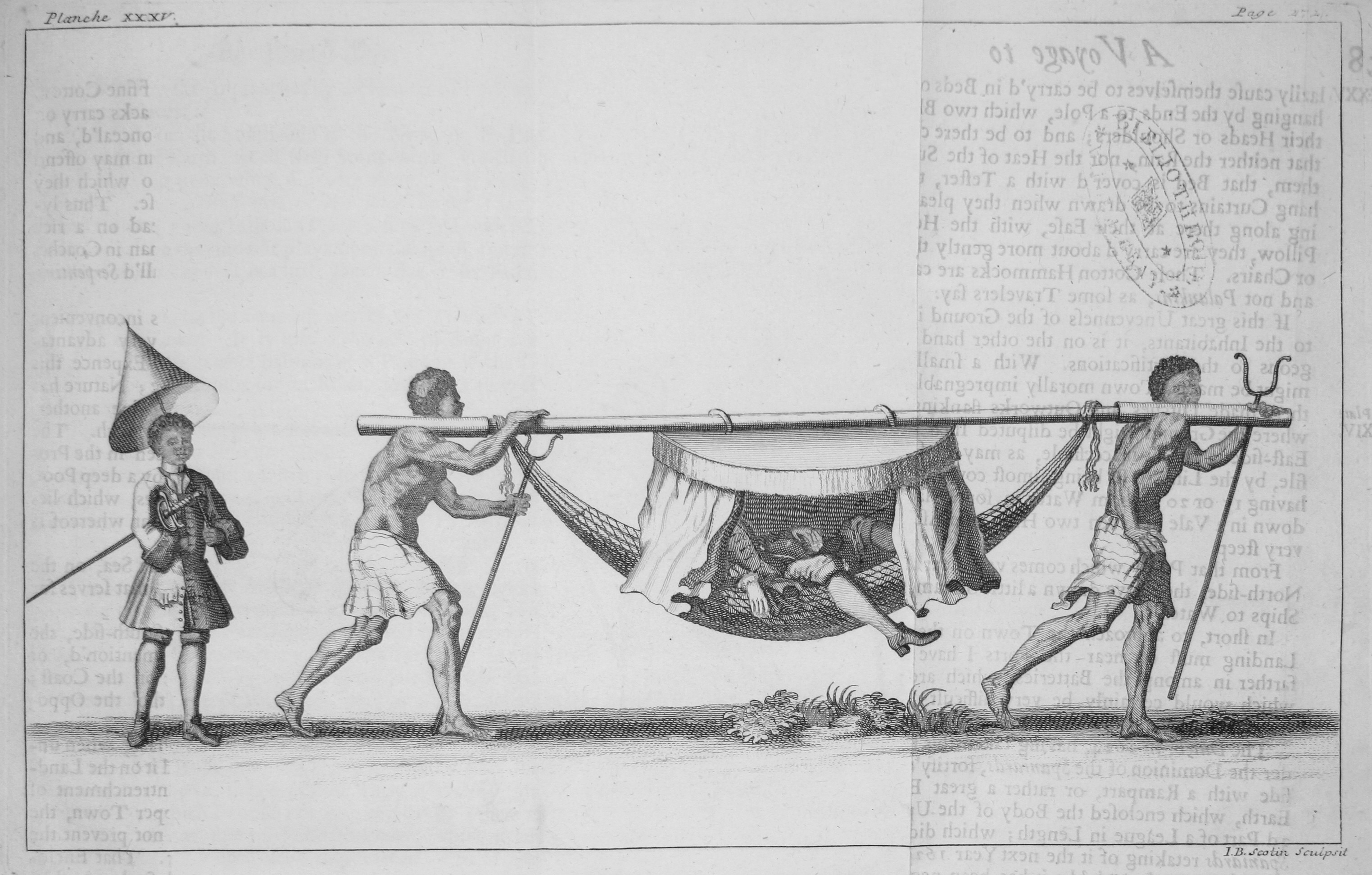 Planche XXXV